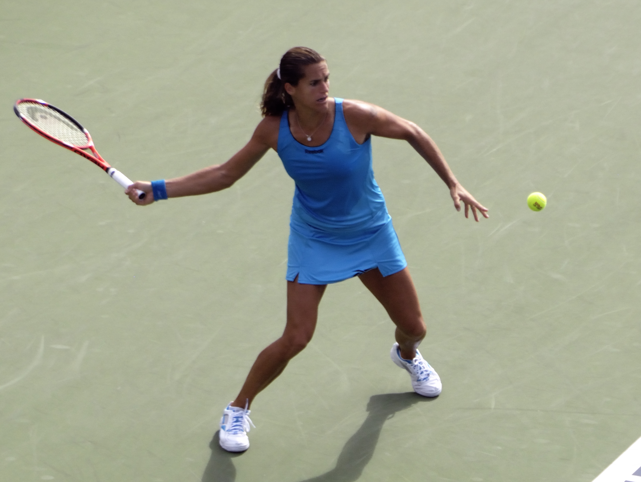 Amélie Mauresmo at the 2009 US Open